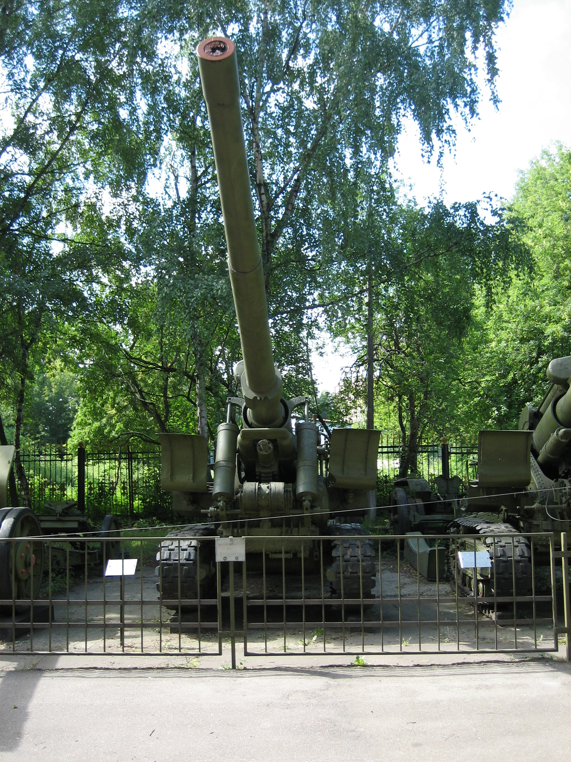 Soviet 152mm Br-2 Mark 1935 gun, displayed in Moscow Military Museum. Photo taken on 19 July, 2007. Source: Photo by me, User:Saiga20K.